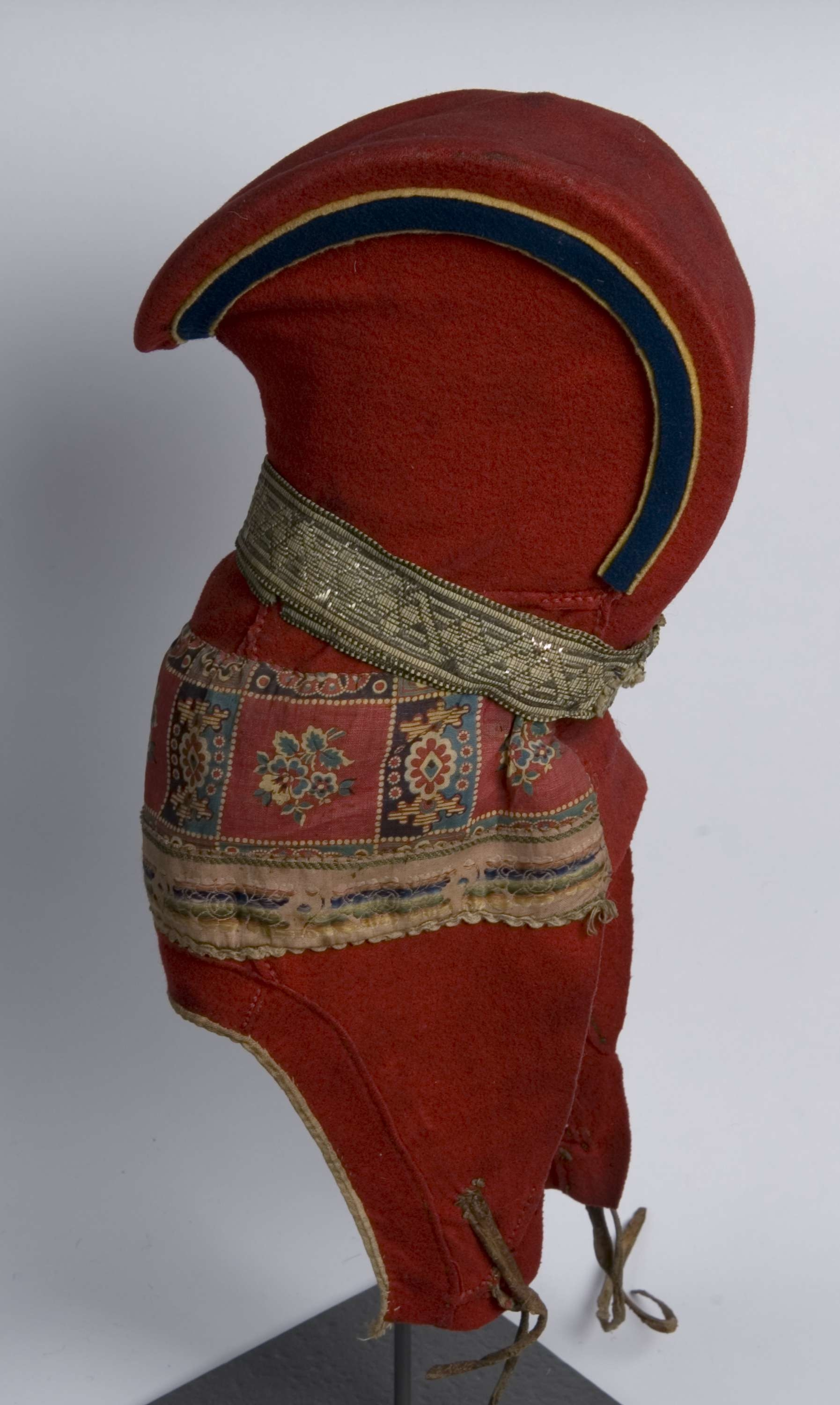 Saami female headwear from Tana, Norway. Bought to Norsk folkemuseum 1909